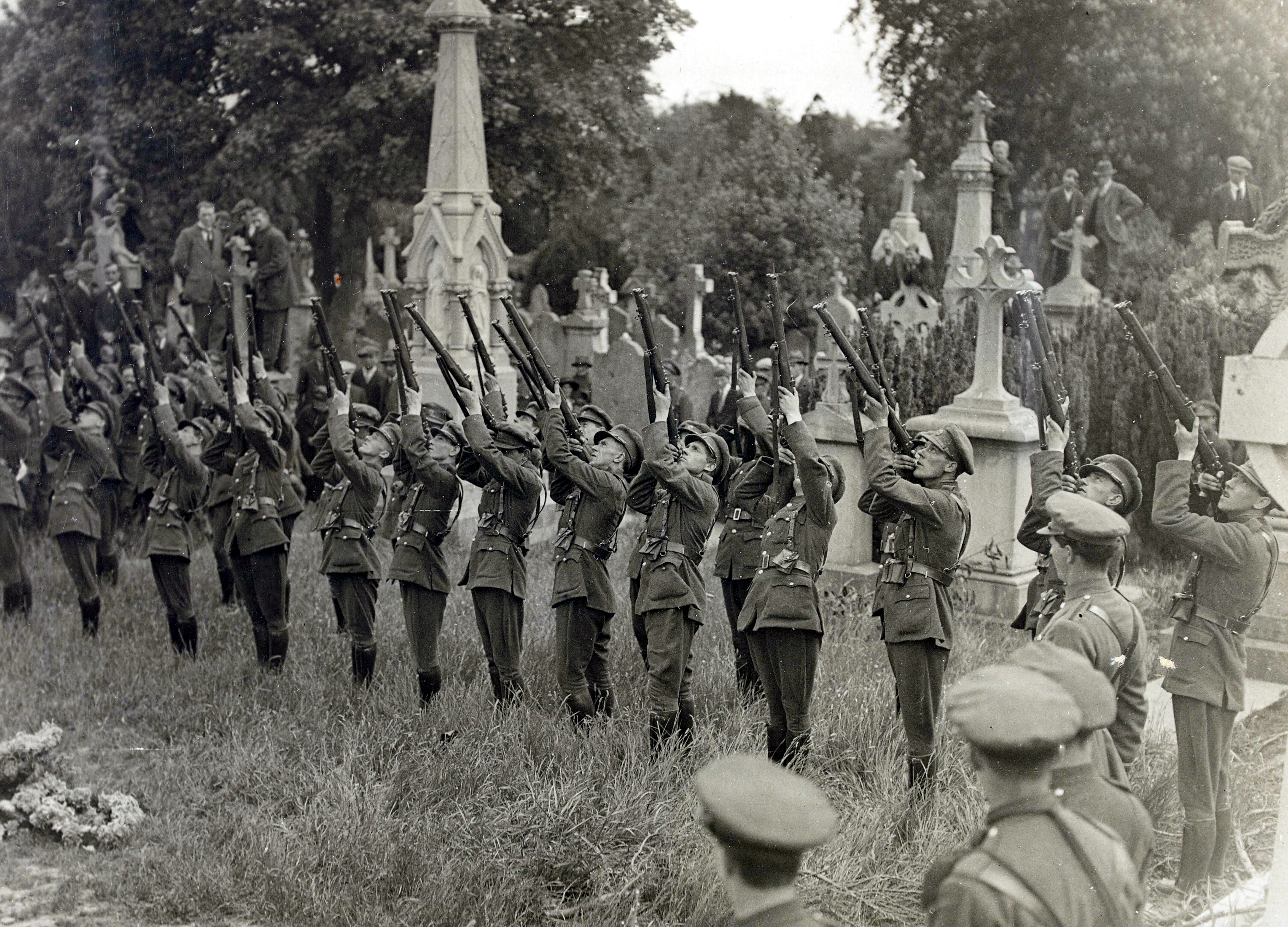 Firing party giving three volleys over the grave of Joseph McGuinness T.D. at Glasnevin Cemetery. (NLI Ref.: HOG70)